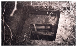 The entrance to the escape tunnel used by German prisoners at Camp Papago Park, Arizona, in 1944.